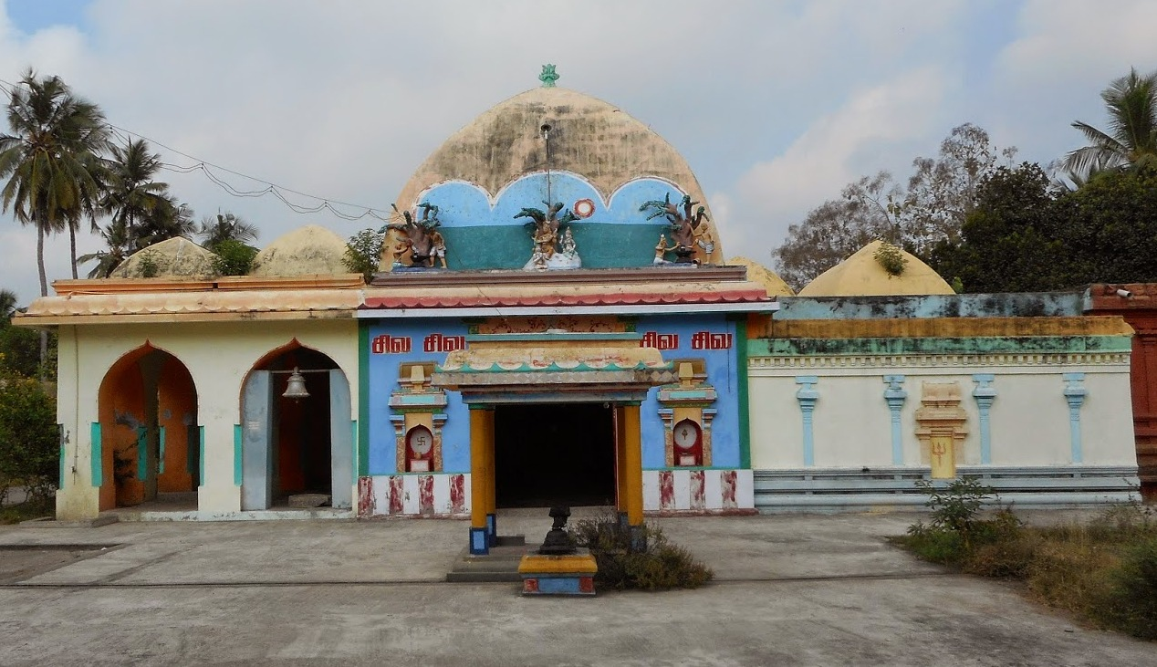 Tiruvaippadi palugandanathar temple திருவாய்ப்பாடி பாலுகந்தநாதர் கோயில்